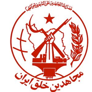 People's Mujahedin Organization of Iran Logo